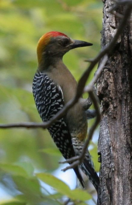 Hoffmann Woodpecker (Melanerpes hoffmannii at el Coco beach in Costa Rica